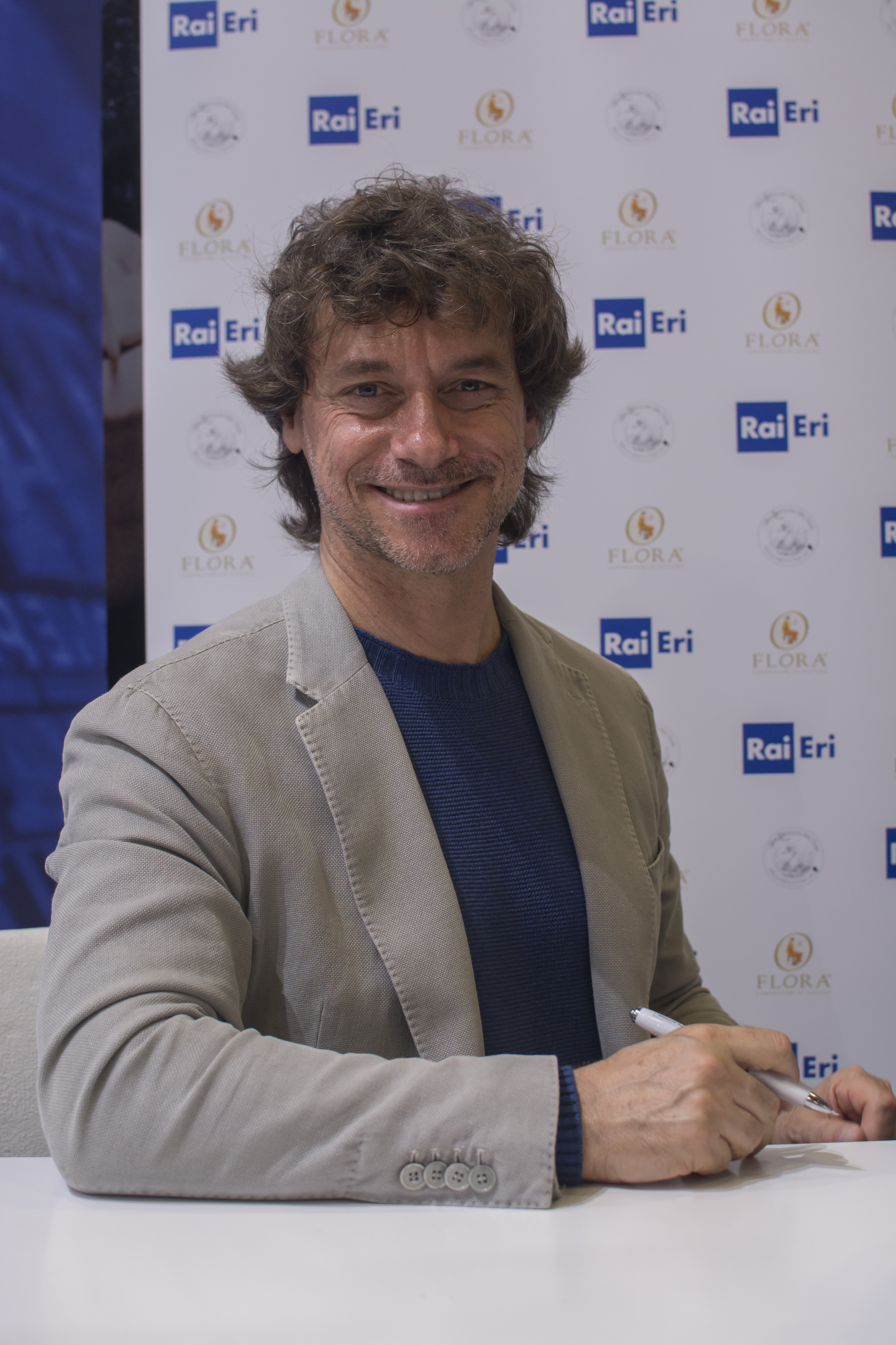 Italian paleontologist Alberto Angela at the XXIX edition of the Turin International Book Fair.